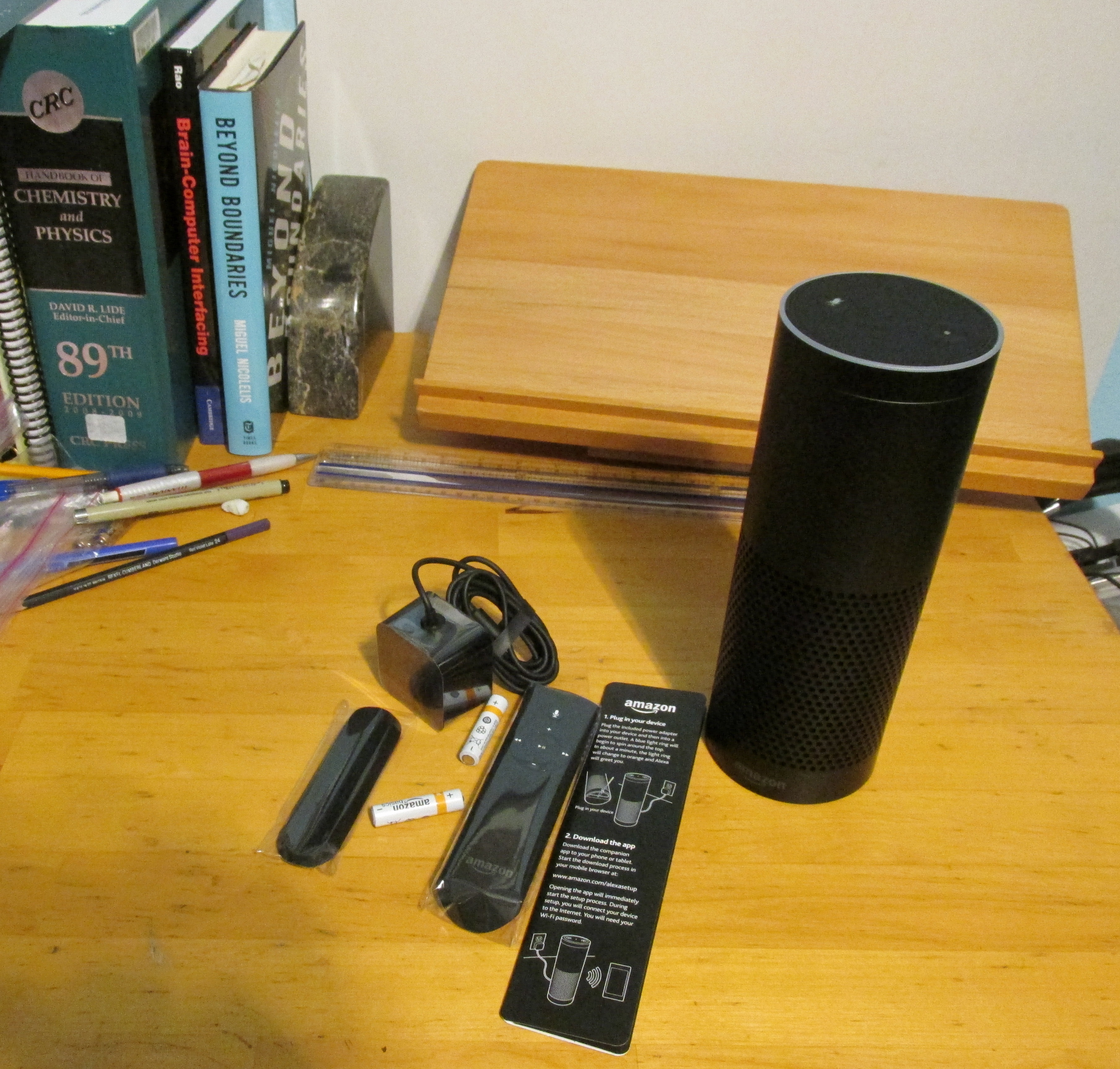 my new Amazon Echo unpacked, voice activated computer that accesses the Internet and also Amazon Prime content.